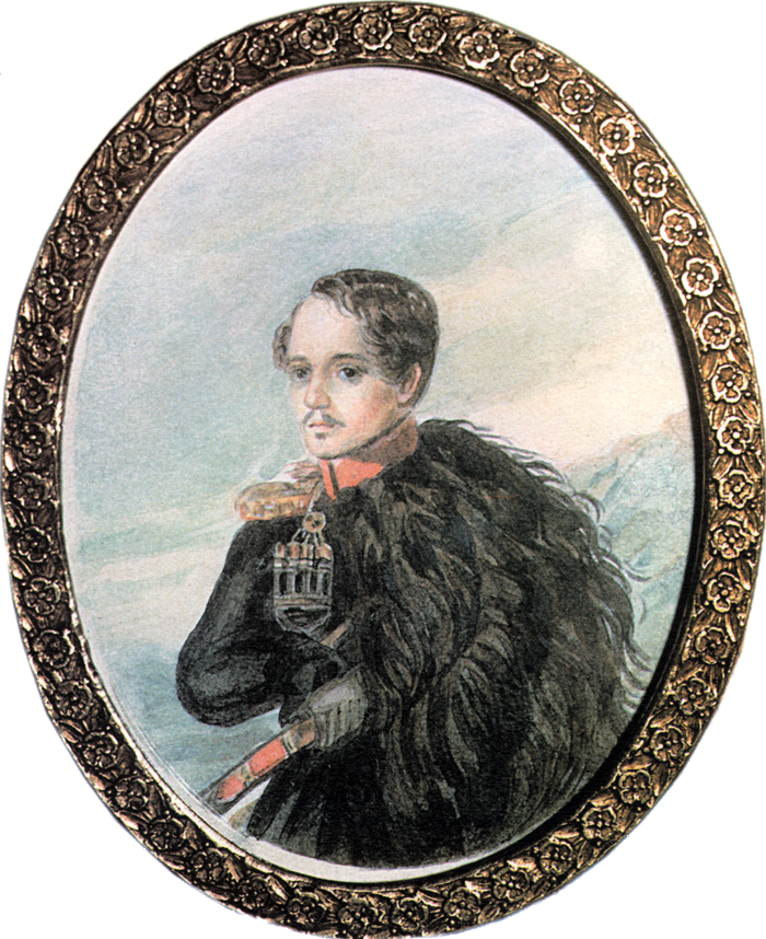 Michael Lermotov - Autoportait